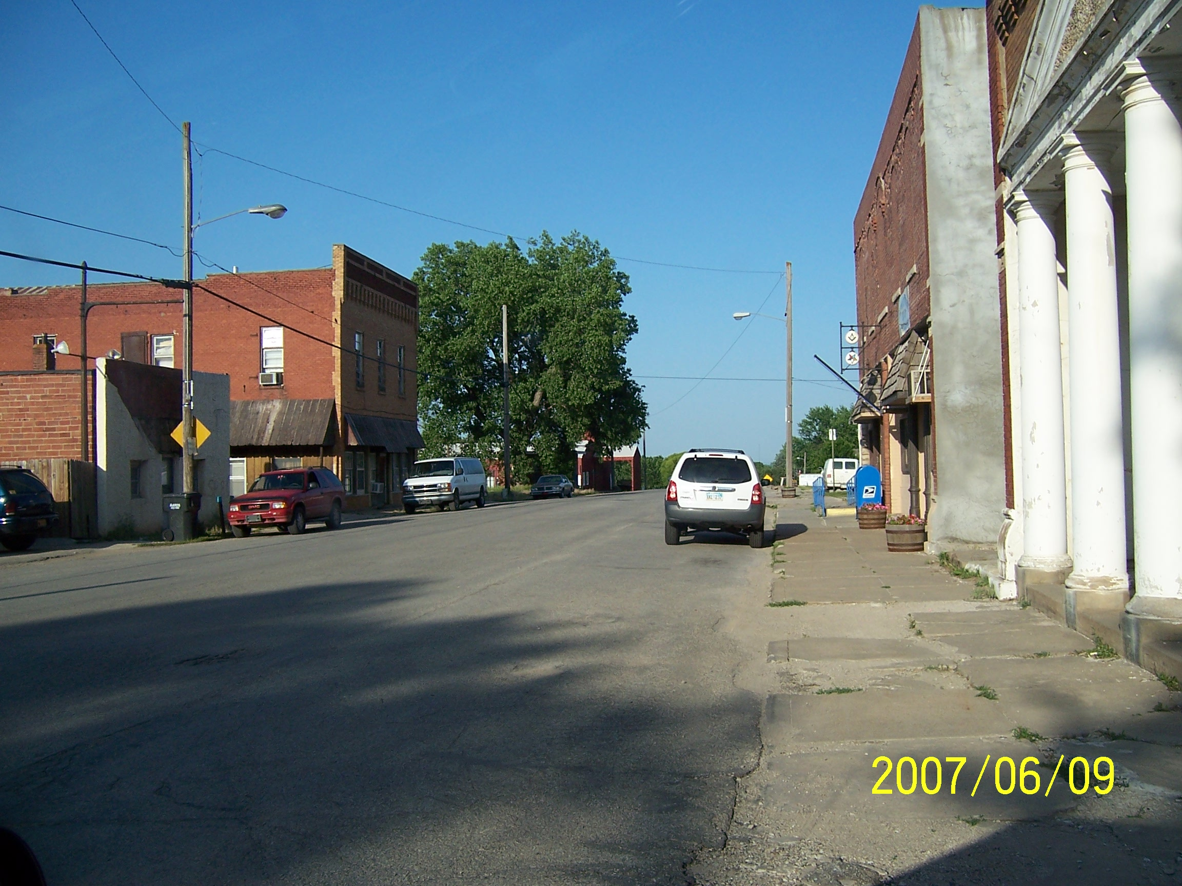 Downtown Hoyt, Kansas Location of Royal Valley High School.